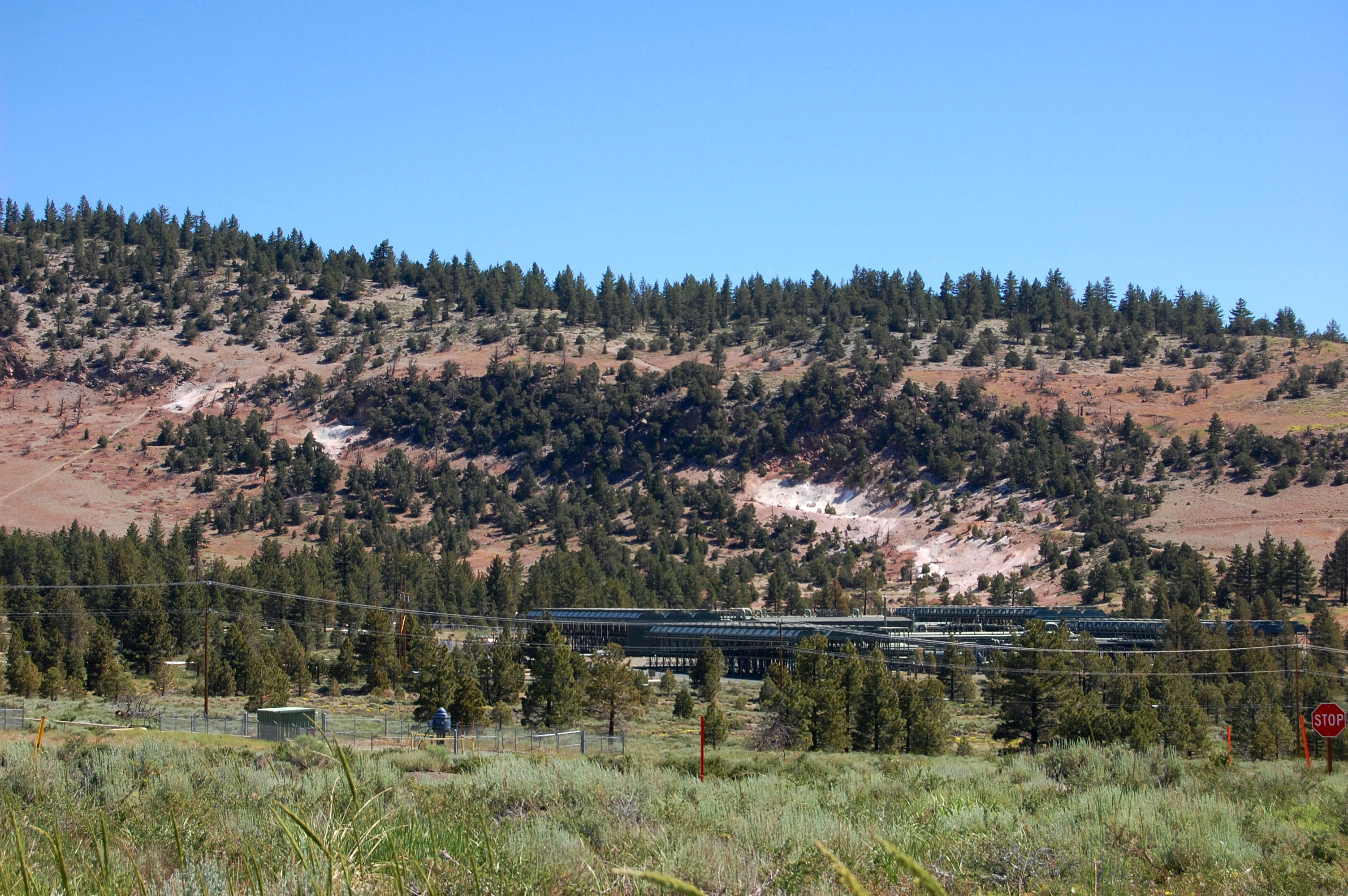 Casa Diablo Hot Springs near Mammoth Lakes, California. The geothermal power plant can be seen at the bottom. The white areas on the slope above are formerlv active geothermal areas. They became inactive with the creation of the power plant.